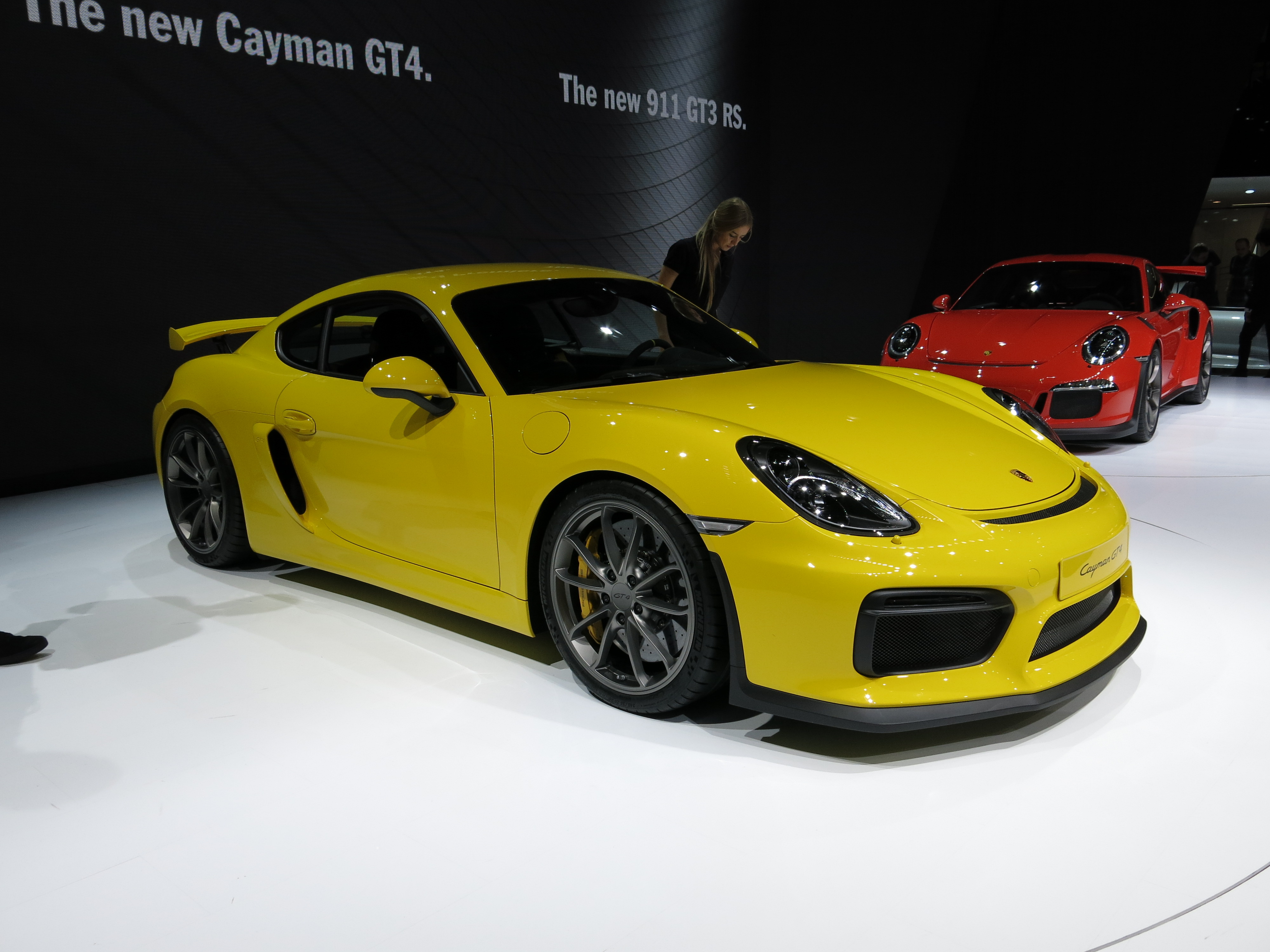 Geneva Motor Show 2015 (photo taken on the first press day)